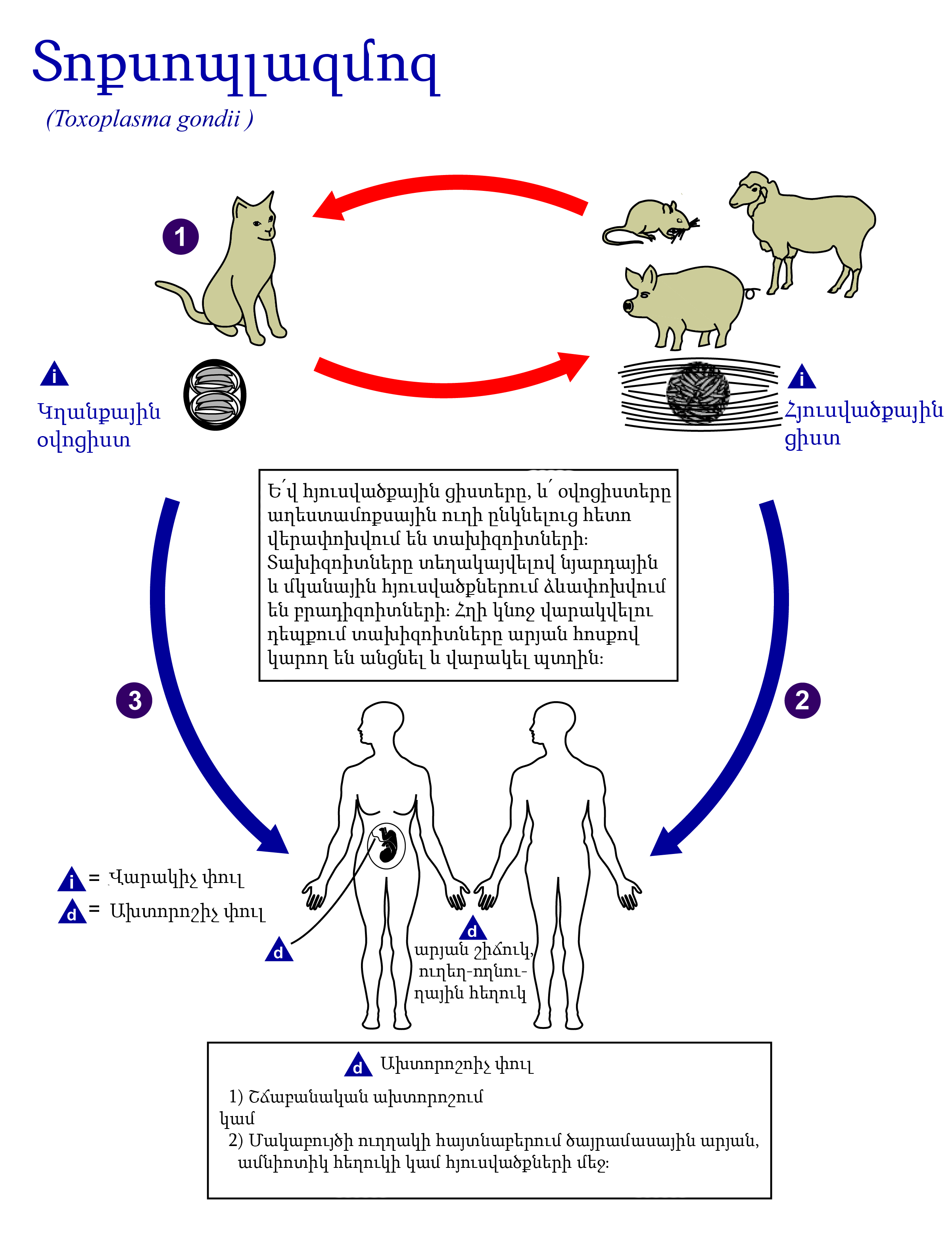 toxoplasma gondii life cycle